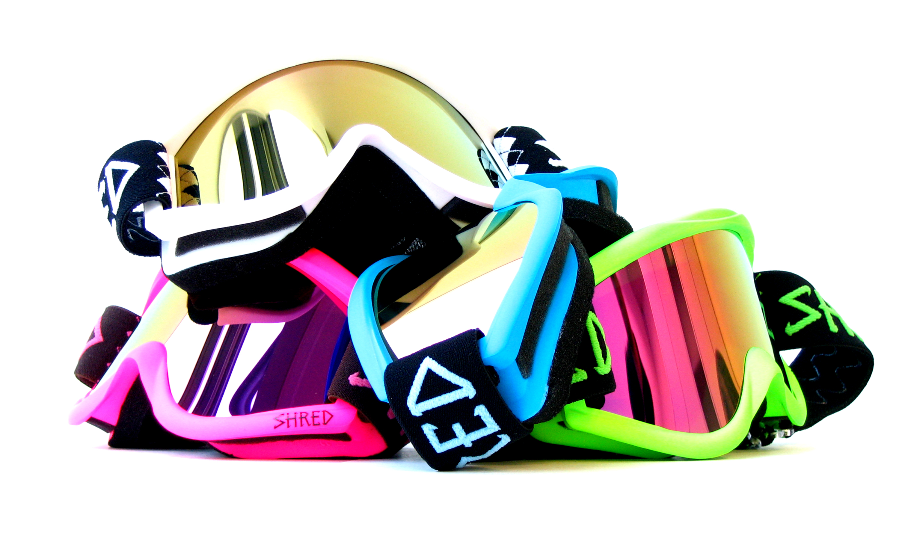 Shred Optics launched in 2006 with a collection of four goggles